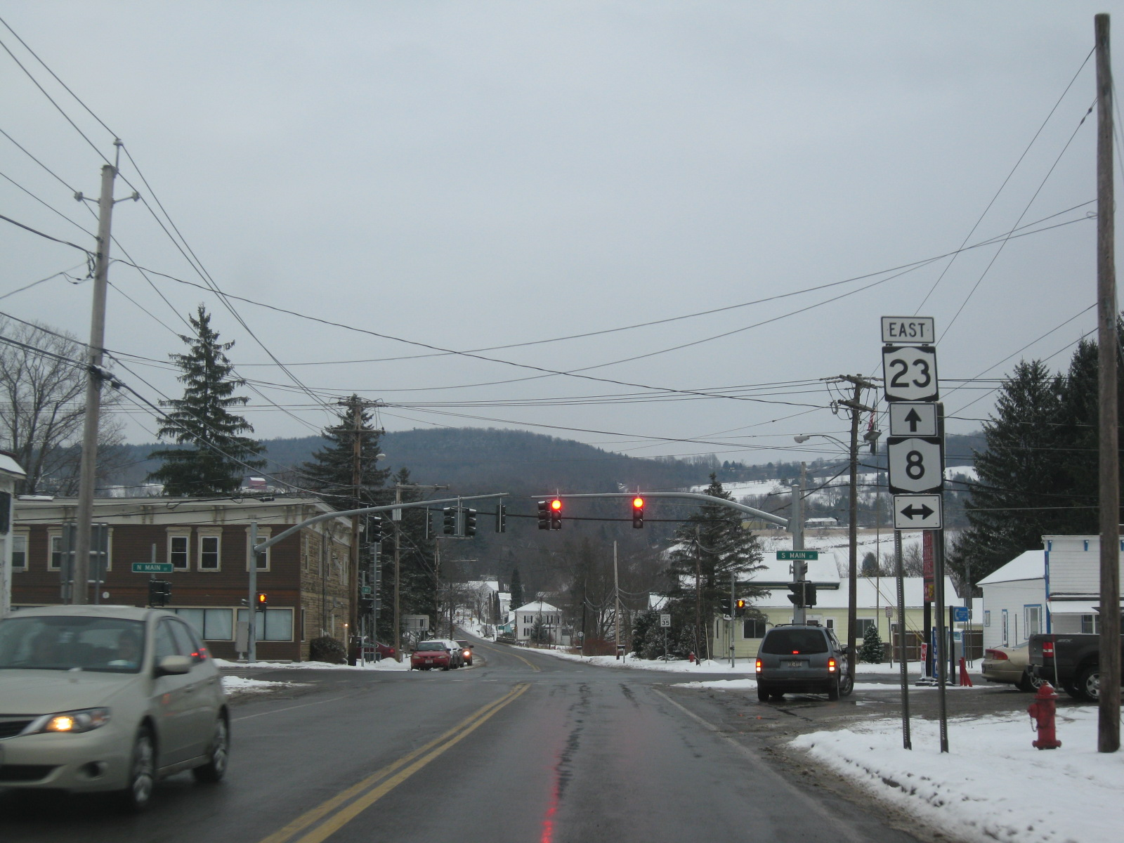 Eastbound on New York State Route 23 at New York State Route 8 in South New Berlin, a hamlet in the town of New Berlin.